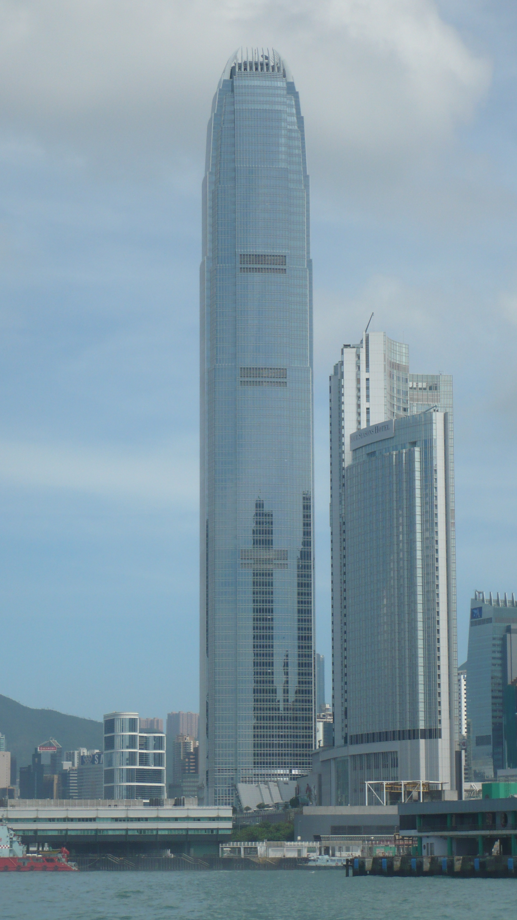 Two IFC and Four Seasons Hotel